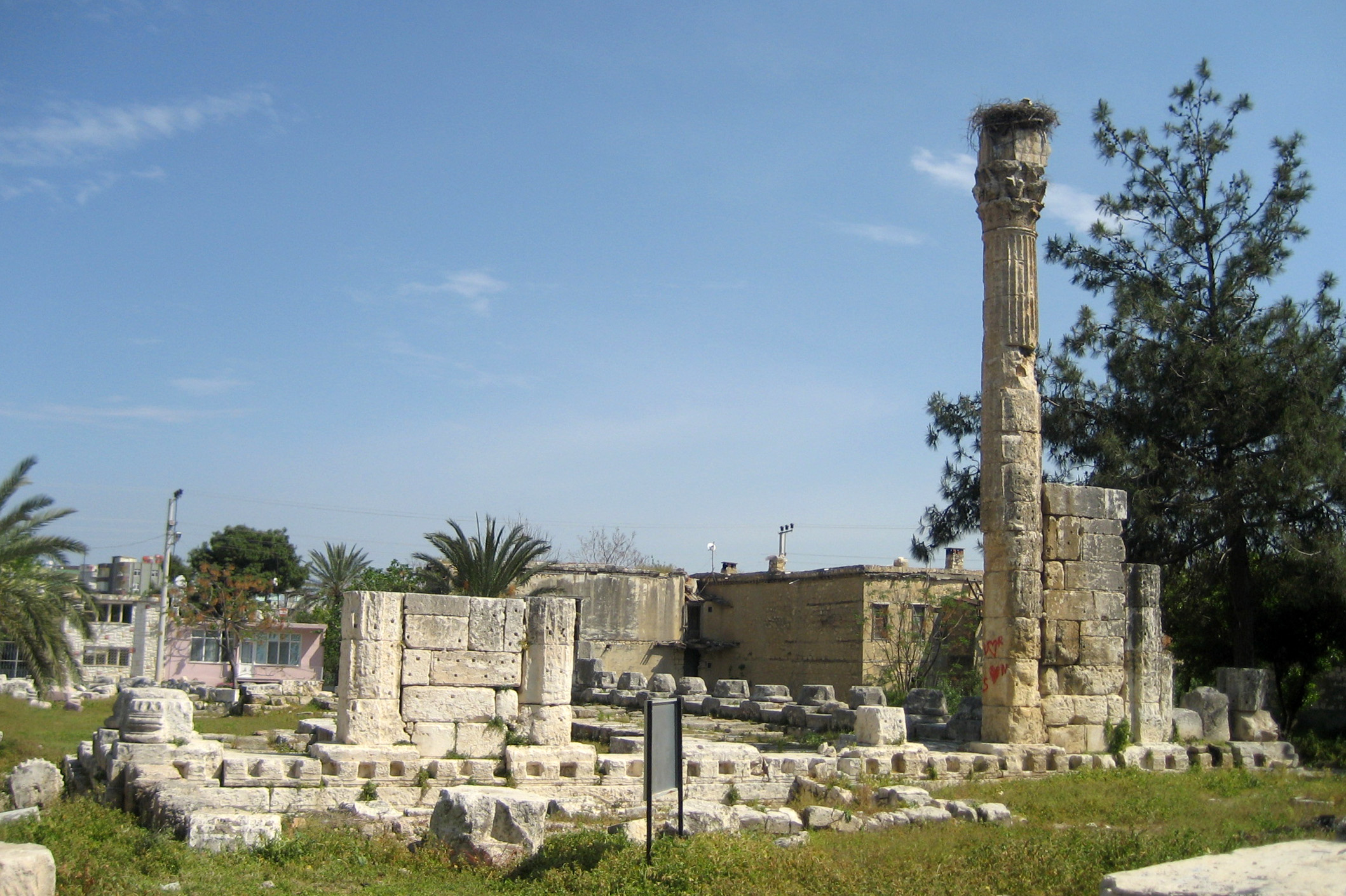 Remains of the Temple of Zeus, Silifke, Mersin province, Turkey